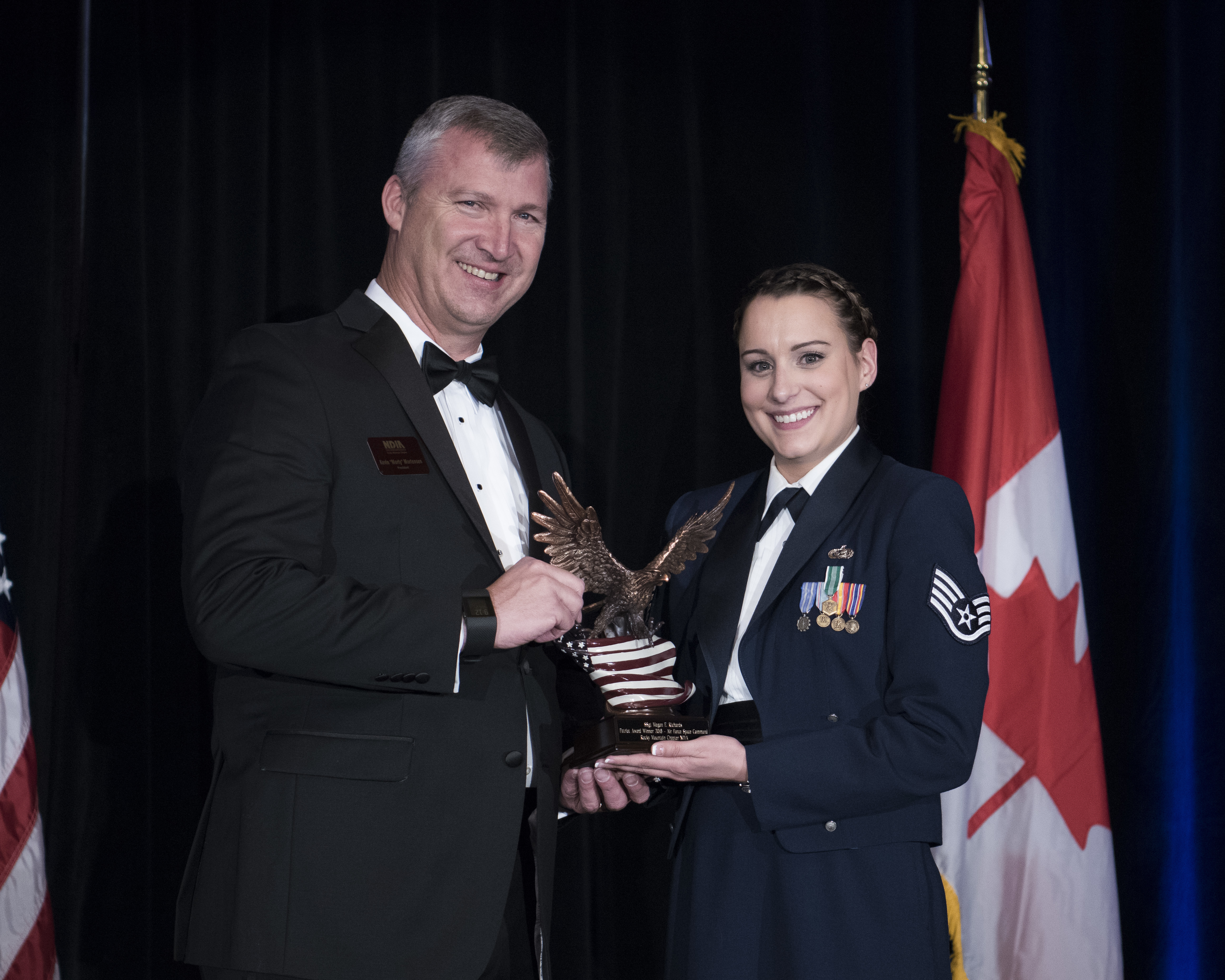 Kevin Mortenson, President of the Rocky Mountain Chapter of the National Defense Industrial Association (left), presents the Patriot Award to Staff Sgt. Megan Richards of Headquarters, Air Force Space Command (right) in Colorado Springs, Colorado, Nov. 2, 2018. The Patriot Award recognizes outstanding service members from all branches of the military serving in the Colorado Springs area. Richards was selected for her achievements as non-commissioned officer in charge of Special Programs Administration for the AFSPC Directorate of Plans, Programs and Financial Management and her community service with Veterans Stand Down and Care and Share Food Pantry. (U.S. Air Force photo by Dave Grim)